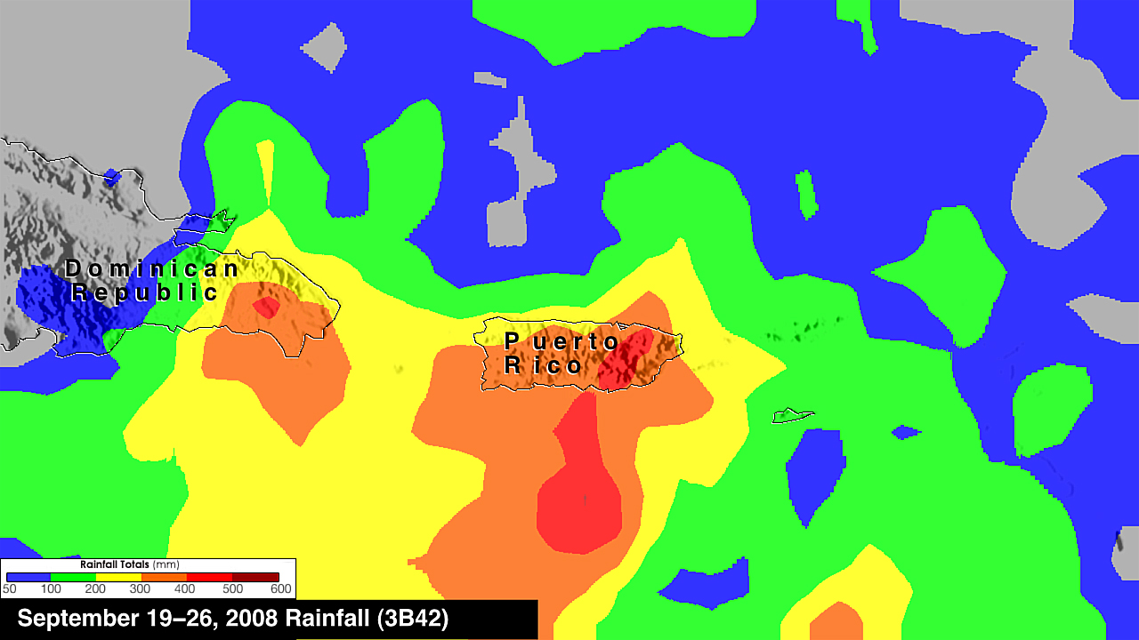 Satellite rainfall estimates from the Pre-Hurricane Kyle wave in Puerto Rico and the Dominican republic